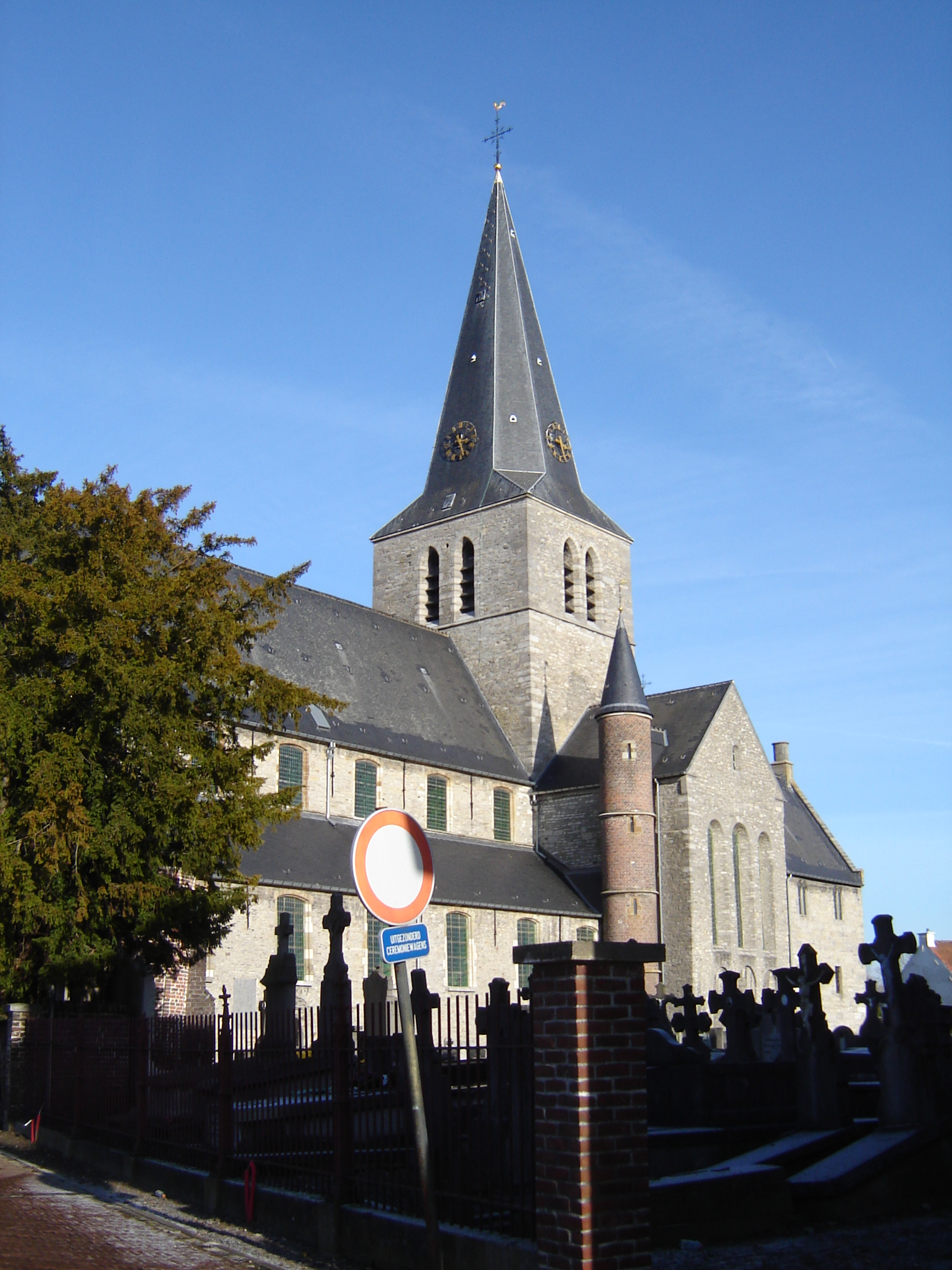 Church of Saint Eligius in Eine. Eine, Oudenaarde, East Flanders, Belgium